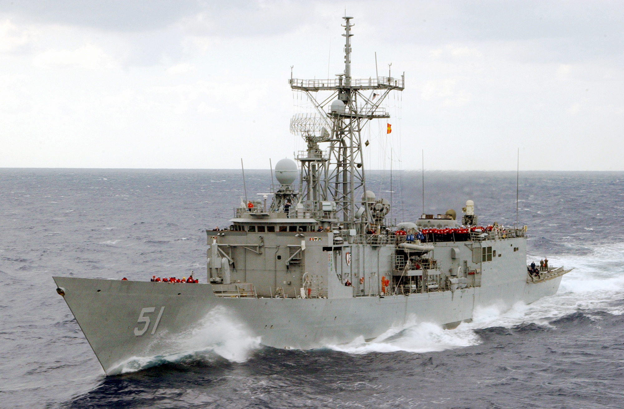 At sea with USS Gary (FFG 51) Nov. 5, 2002 -- The guided missile frigate makes an approach on the aircraft carrier USS Kitty Hawk (CV 63) while preparing for a scheduled replenishment at sea (RAS). Replenishment operations are conducted while underway between ship in order to transfer fuel and supplies during extended periods at sea. Kitty Hawk and her embarked Carrier Air Wing Five (CVW-5) is currently underway providing a forward presence in the Asian Pacific area of operation, while conducting scheduled training and exercises with regional allies. Kitty Hawk is the Navy’s only permanently forward-deployed aircraft carrier and is home ported in Yokosuka, Japan. US Navy Photo by Photographer’s Mate 3rd Class Todd Frantom. (RELEASED)